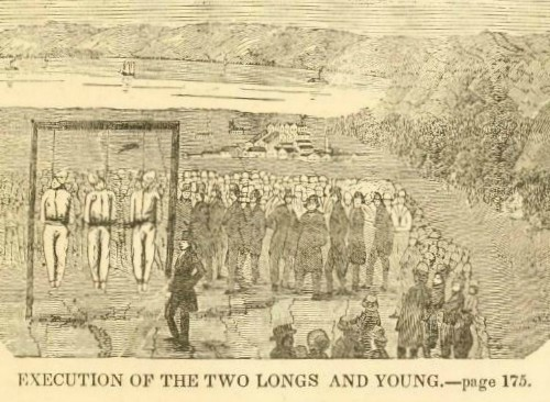 Execution Of The Two Longs And Young